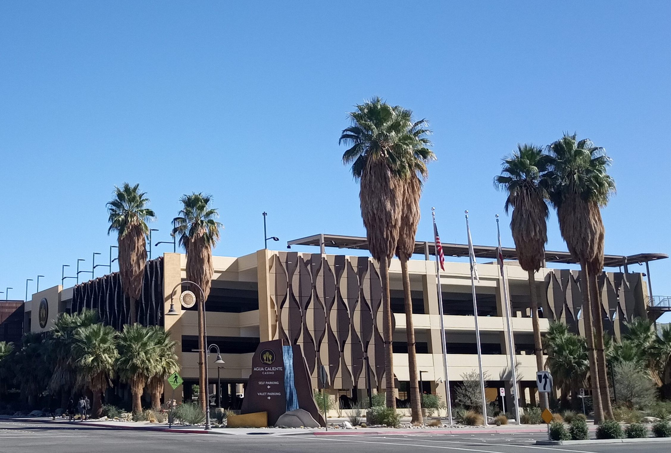 Agua Caliente Spa Resort Casino on Indian land in downtown Palm Springs, California. Owned by the Agua Caliente Band of Coahuilla Indians.